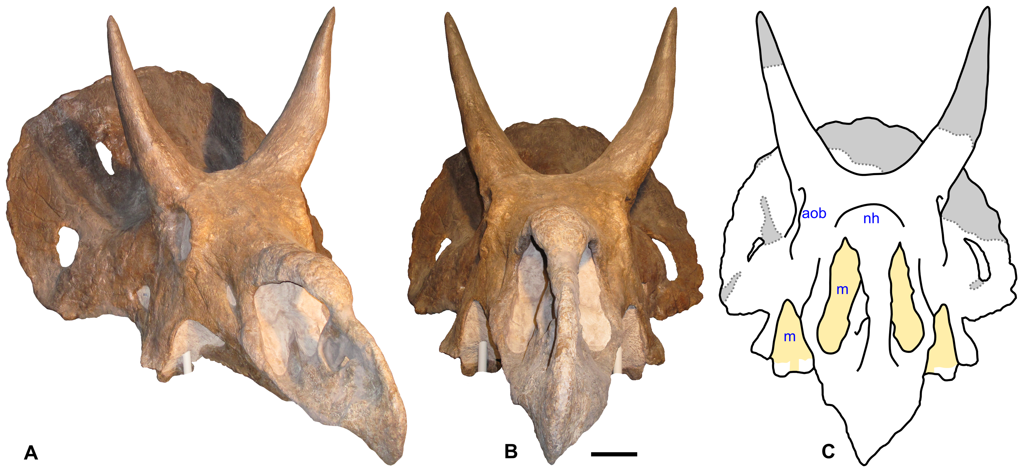 Skull of Nedoceratops hatcheri, USNM 2412. A. Photograph in right oblique view. B. Photograph in rostral view. C. Interpretive line drawing in rostral view, with major reconstructed areas indicated in gray and matrix indicated in yellow. Abbreviations: aob, antorbital buttress; m, matrix and metal supports; nh, nasal horncore. Scale bar equals 10 cm, but note that parallax prevents accurate measurement of parts of the skull caudal to the external naris.